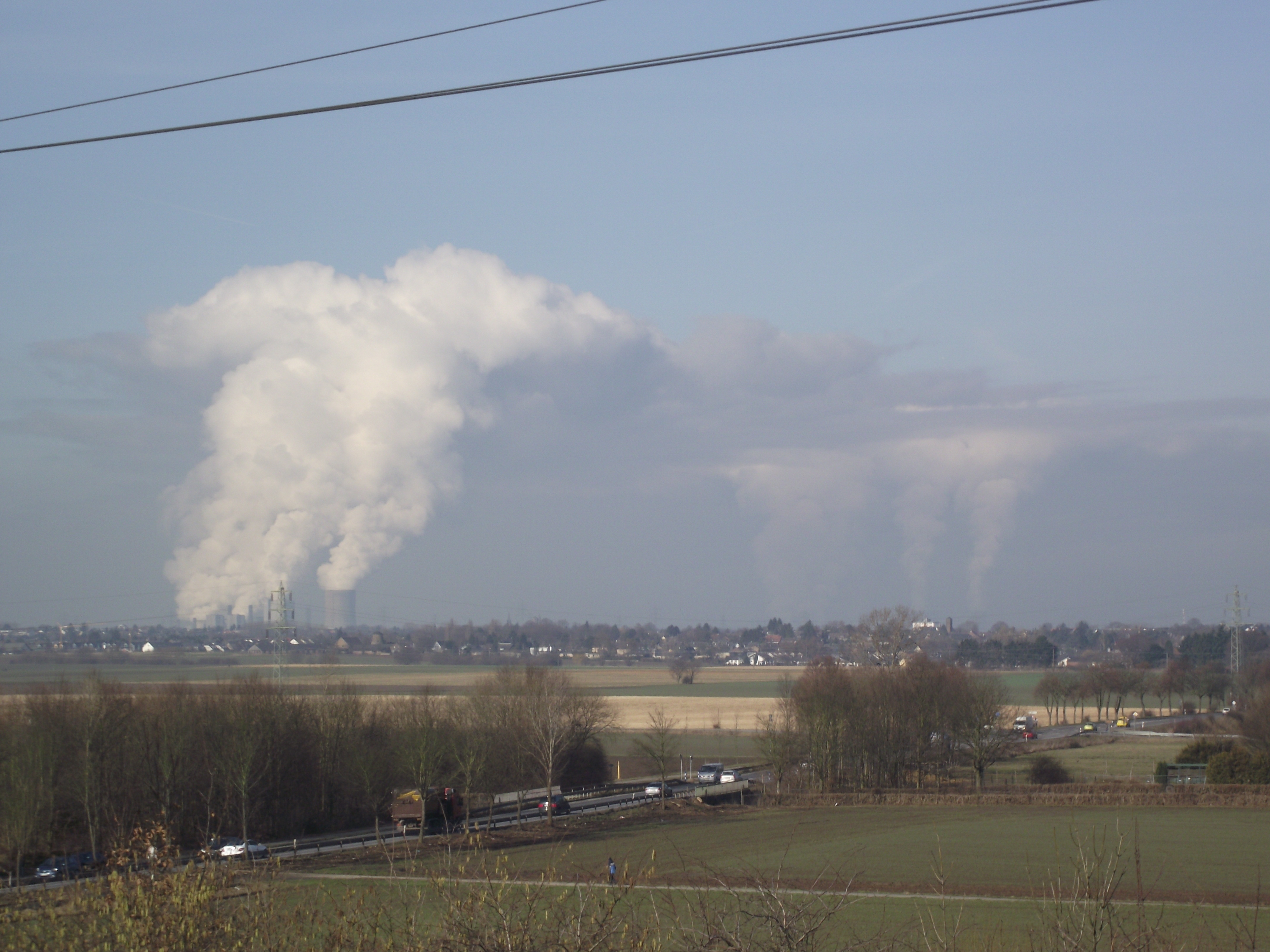 View from S-bahn station Köln-Weiden West of the steam coming from an power station at Niederaußem. The steam hits an inversion layer.